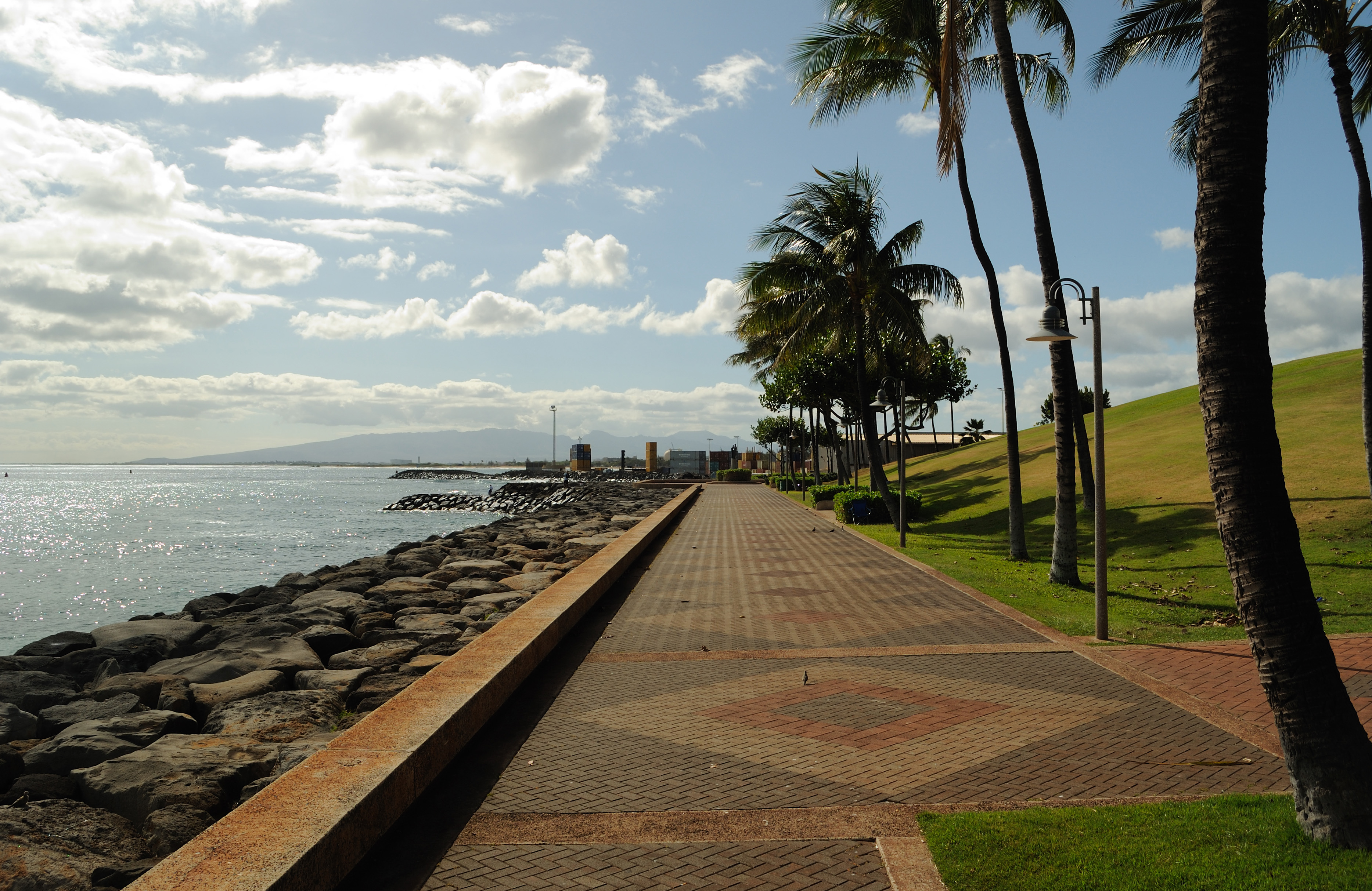 Looking towards the northwest.